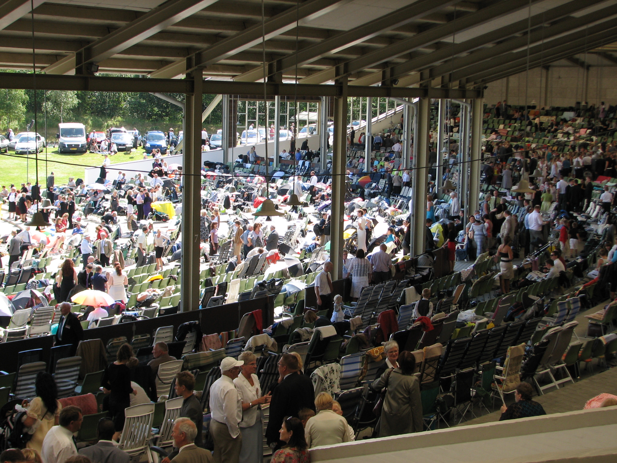 Auditorium of "Jehovah's Witnesses Convention Center" in Silkeborg, Denmark